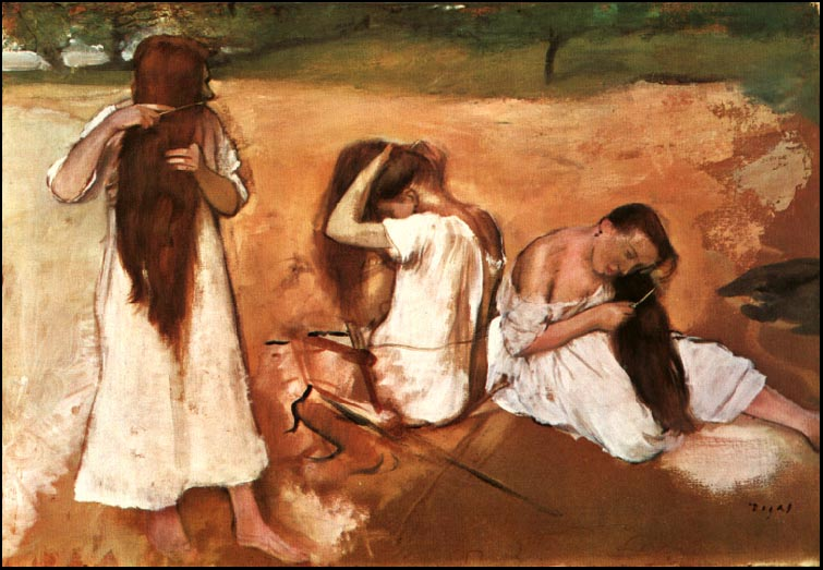 Three women combing their hair